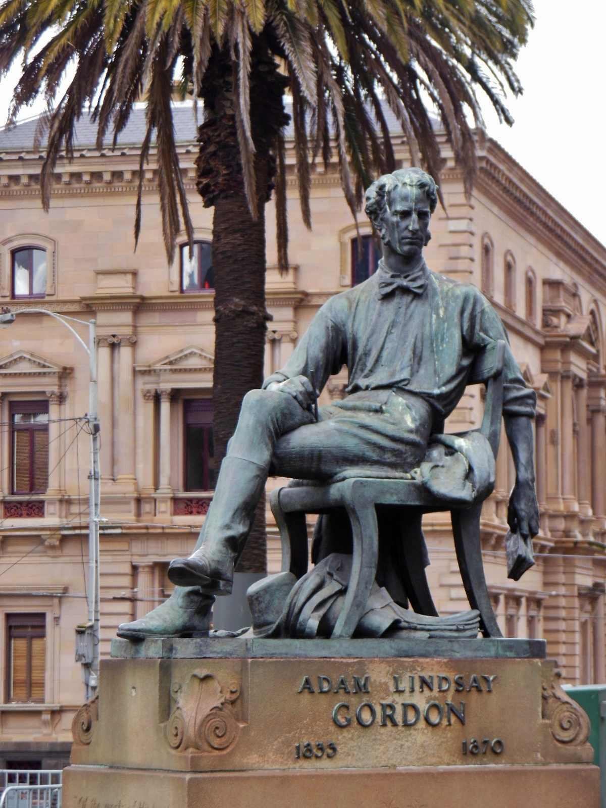 Adam Lindsay Gordon Against a Background Appropriate for His Time